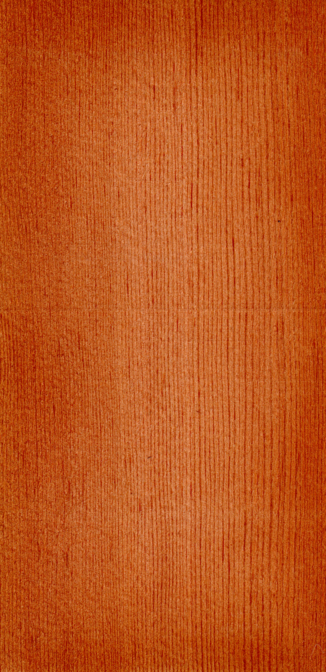 Wood of Pseudotsuga menziesii subsp. glauca, Rocky Mountain Douglas-fir, formerly known as Pseudotsuga taxifolia